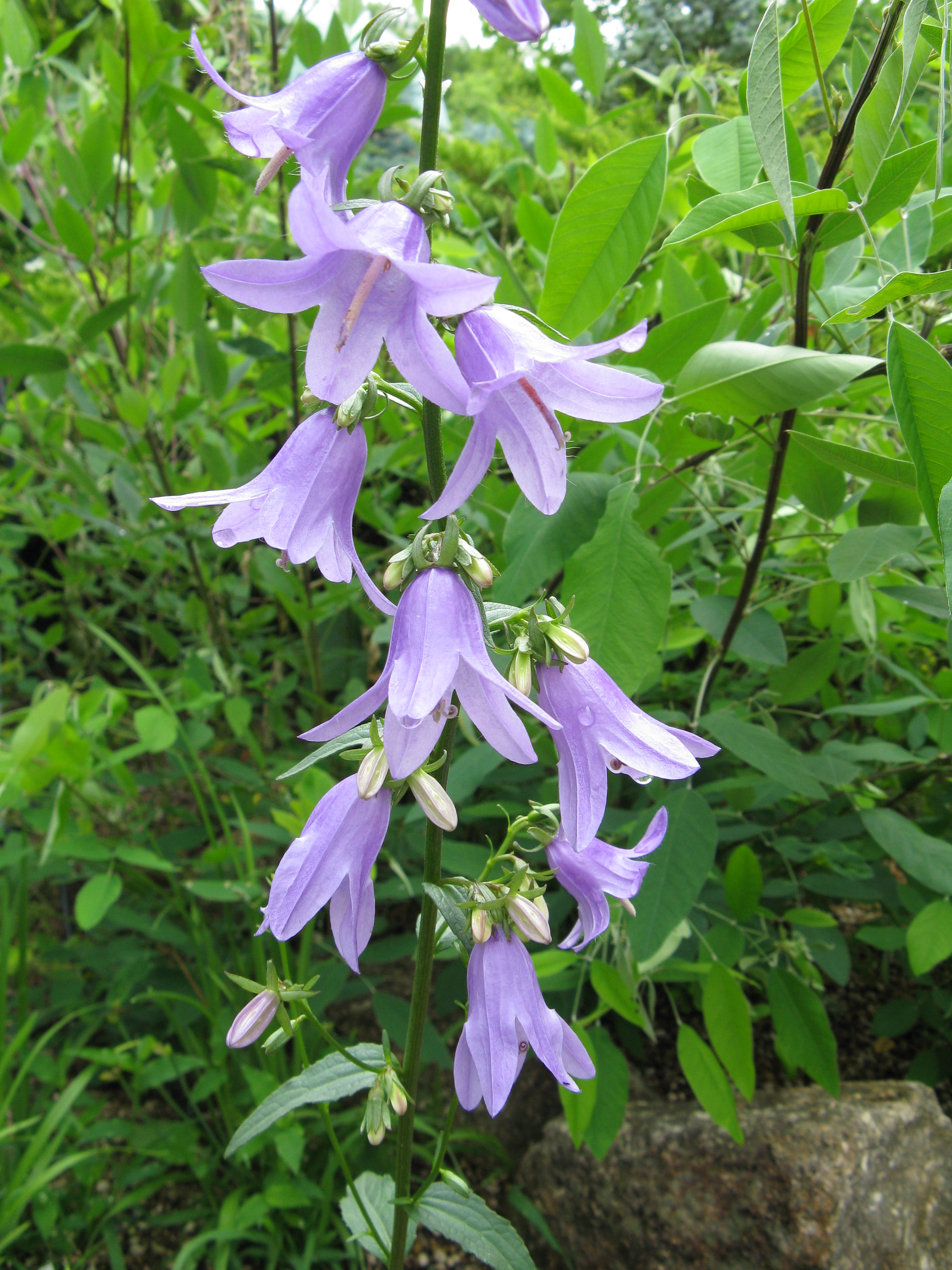 Scientific name Adenophora pereskiaefolia